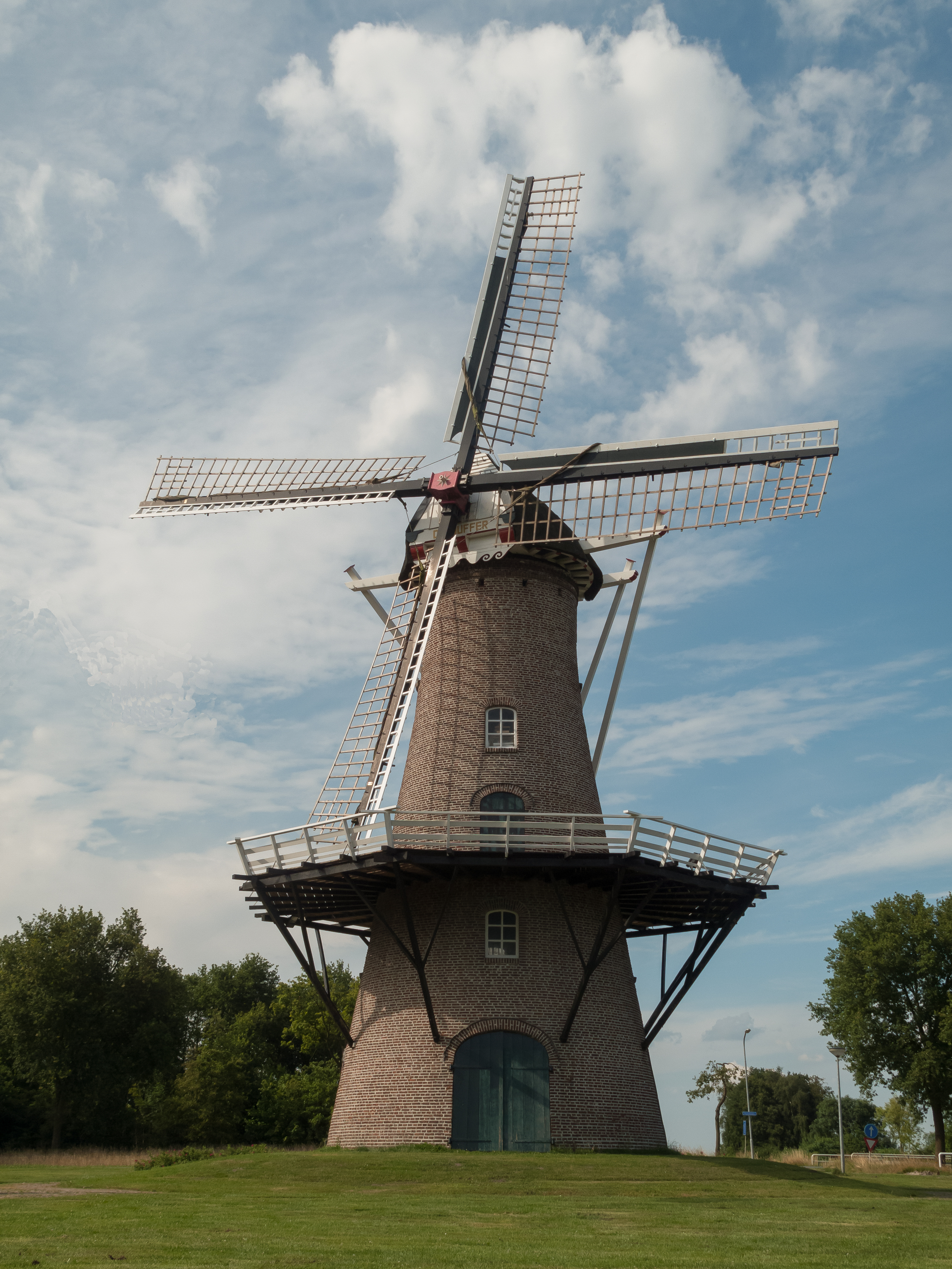 between Gasselternijveeen and Gasselte, windmill: korenmolen de Juffer